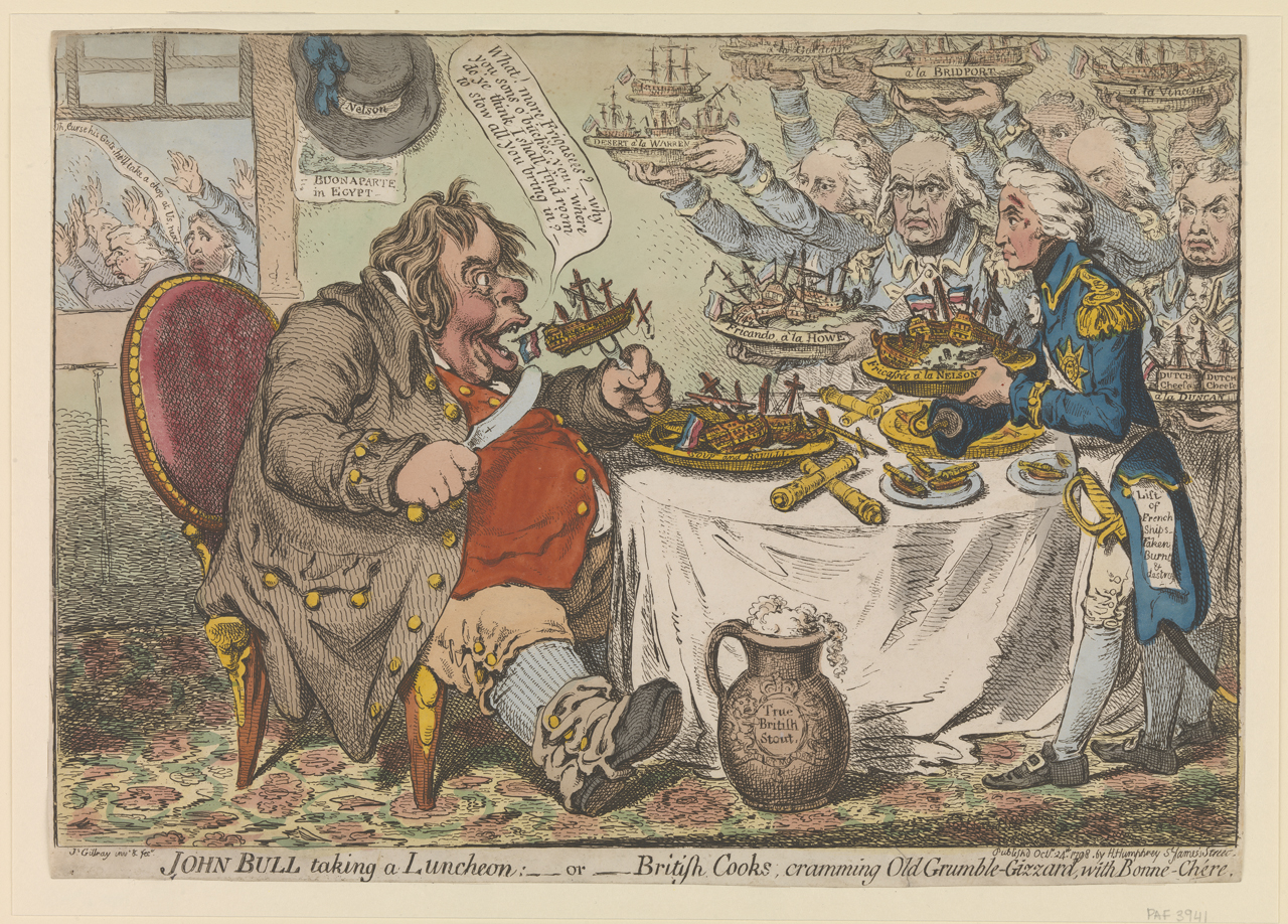 John Bull taking a Luncheon: – or – British Cooks, cramming Old Grumble-Gizzard, with Bonne-Chere, hand-coloured etching.This print was published just after Nelson's victory at the Battle of the Nile. He is shown in the forefront of British admirals and naval heroes, serving up victories for "Old Grumble-Gizzard", the British public, to satisfy its appetite for "frigasees" of enemy ships, washed down with "True British Stout".